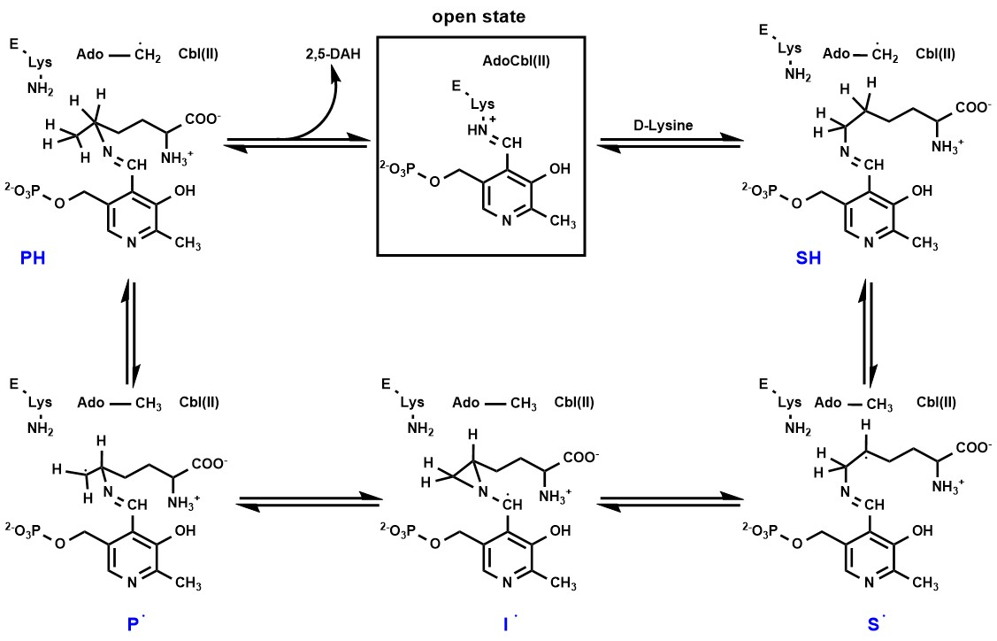 Well-accepted mechanism of 5,6-LAM